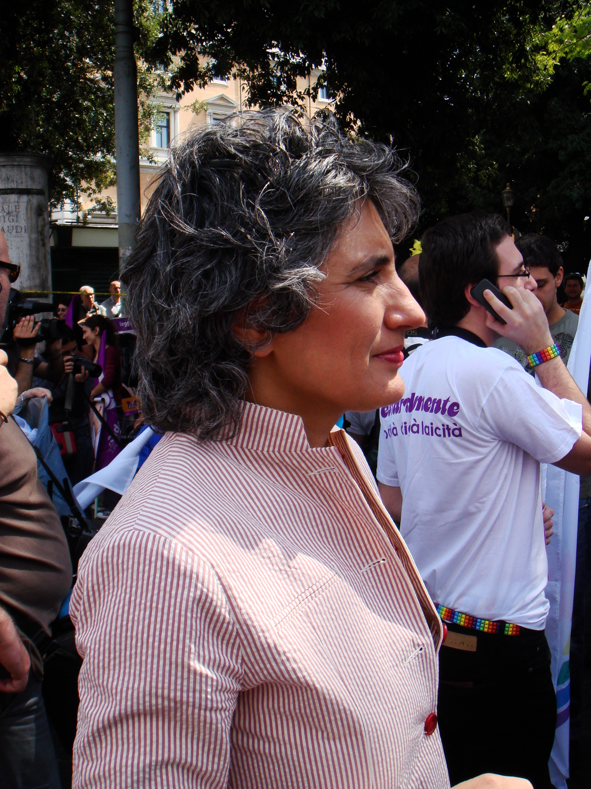 Paola Concia, Italian M.P., at the Roma Gay Pride in 2008. Picture by Stefano Bolognini, June 7 2008.